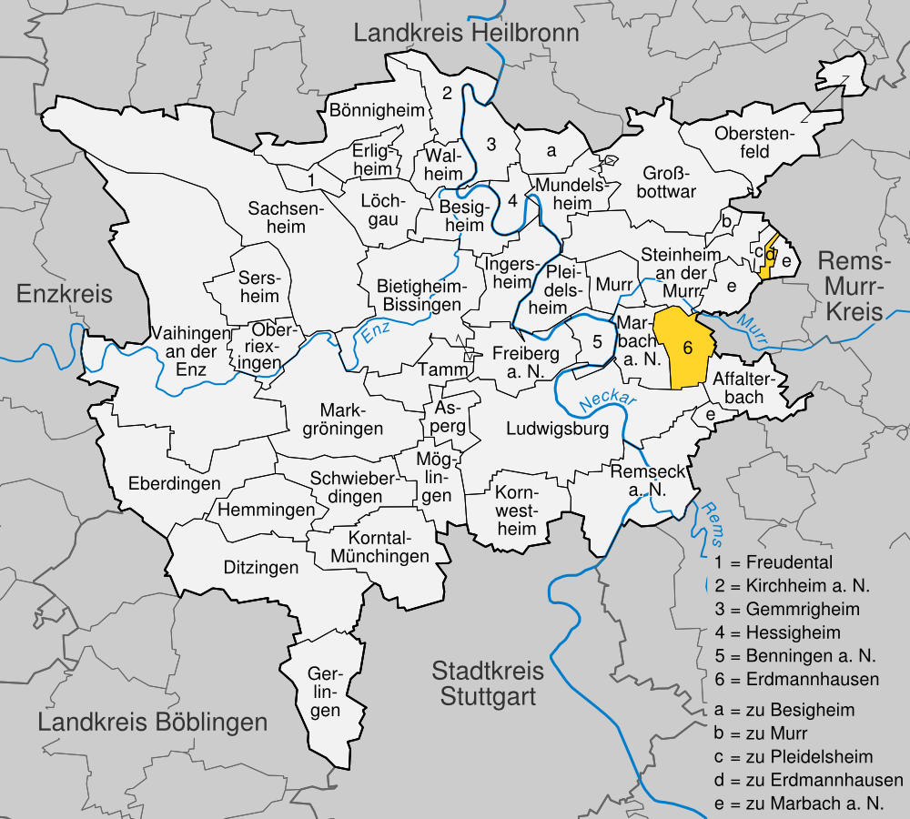 position of Erdmannhausen within distict of Ludwigsburg, Baden-Württemberg, Germany